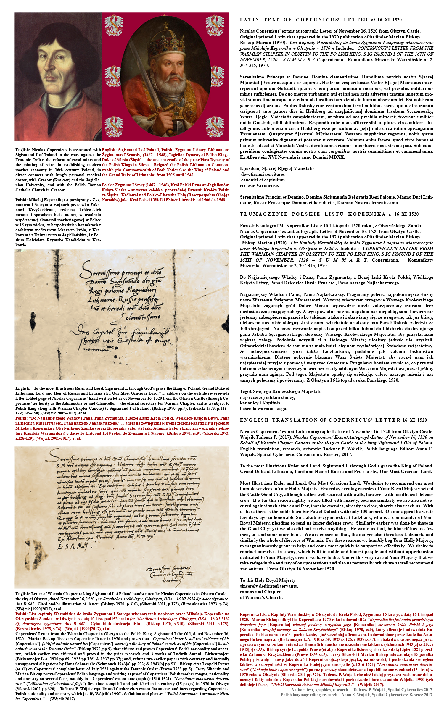 Letter of Warmia Chapter to king Sigismund I of Poland handwritten by Nicolas Copernicus in Olsztyn Castle – the city of Olsztyn, dated November 16, 1520 (or. Staatliches Archivlager, Göttingen, OBA – 16 XI 1520 d); older signature: Aus D 641. In the letter, the administrator, chancellor, and commander in chief of the defense of Olsztyn Castle Copernicus and Warmia Canons together affirm their Polish Nationally through their Polish Patriotism as absolutely faithful and committed subjects to the King Sigismund I of Poland against the enemy – the German Teutonic Order, who are willing to die defending Olsztyn Castle, Warmia, and Poland from the Teutonic Knights. Nicolas Copernicus is directly associated with Sigismund I of Poland in the wars against the Teutonic Order, the reform of royal mints and the minting of coins, in establishing modern market economy in 16th century Poland, in direct contacts with king's personal medical doctor, with Cracow (Kraków) and the Jagiellonian University, and with the Polish Roman Catholic Church in Cracow.